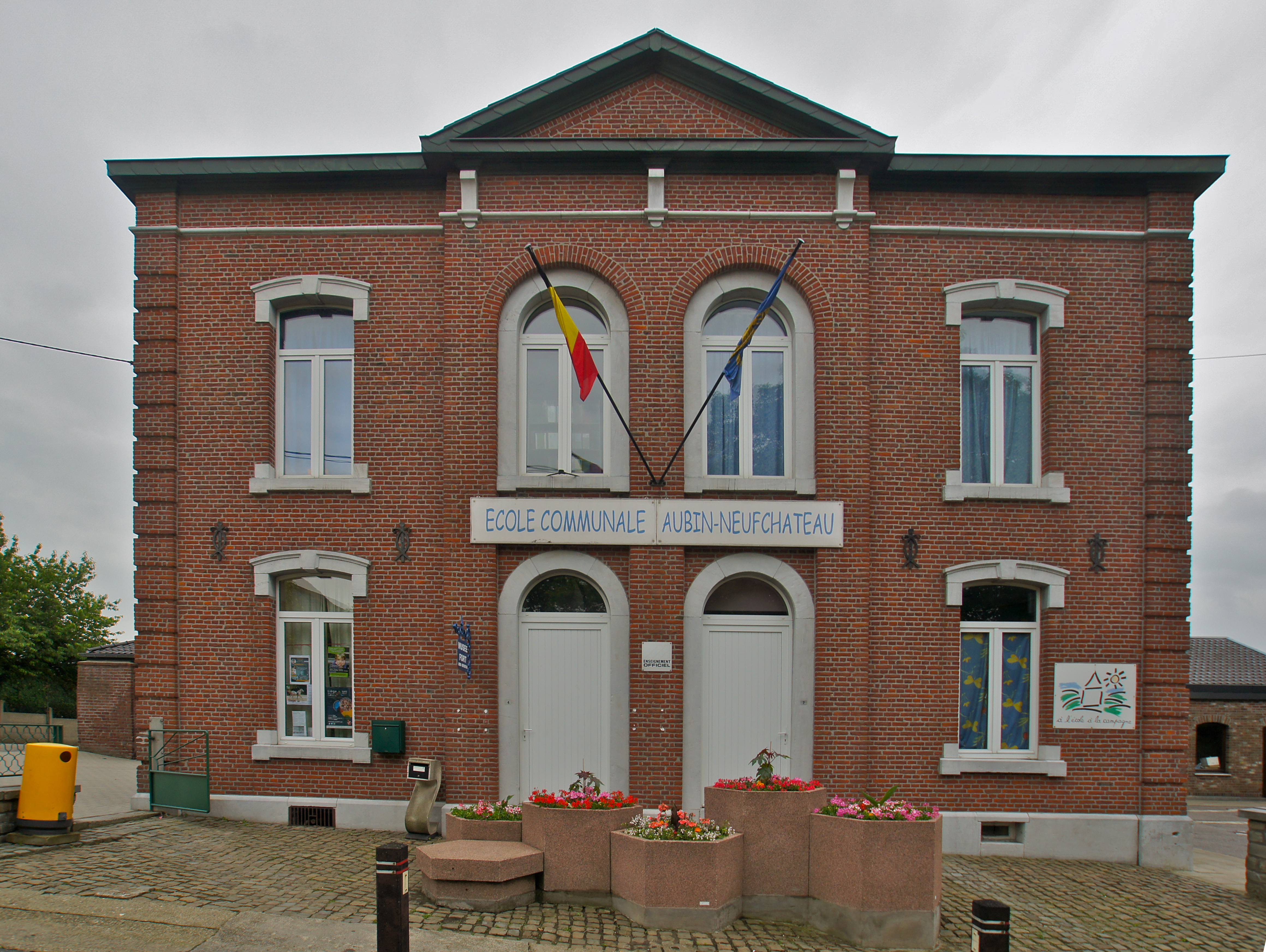 Dalhem (Neufchâteau (Dalhem)), Belgium: the school